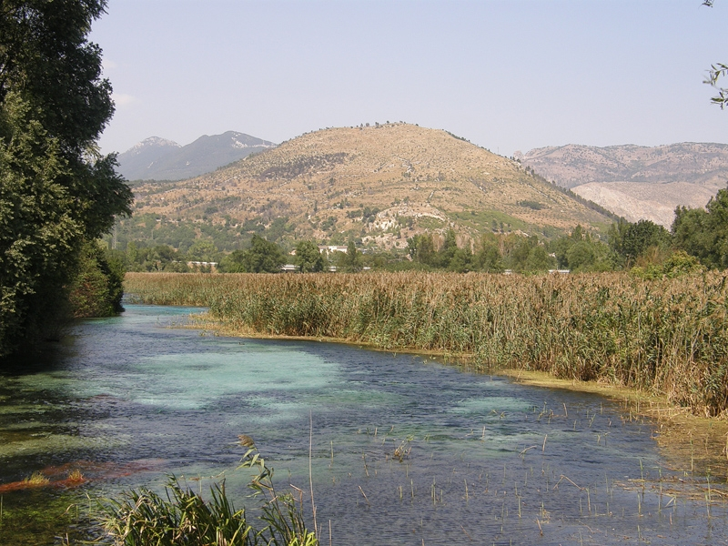 Springs of Pescara River Popoli